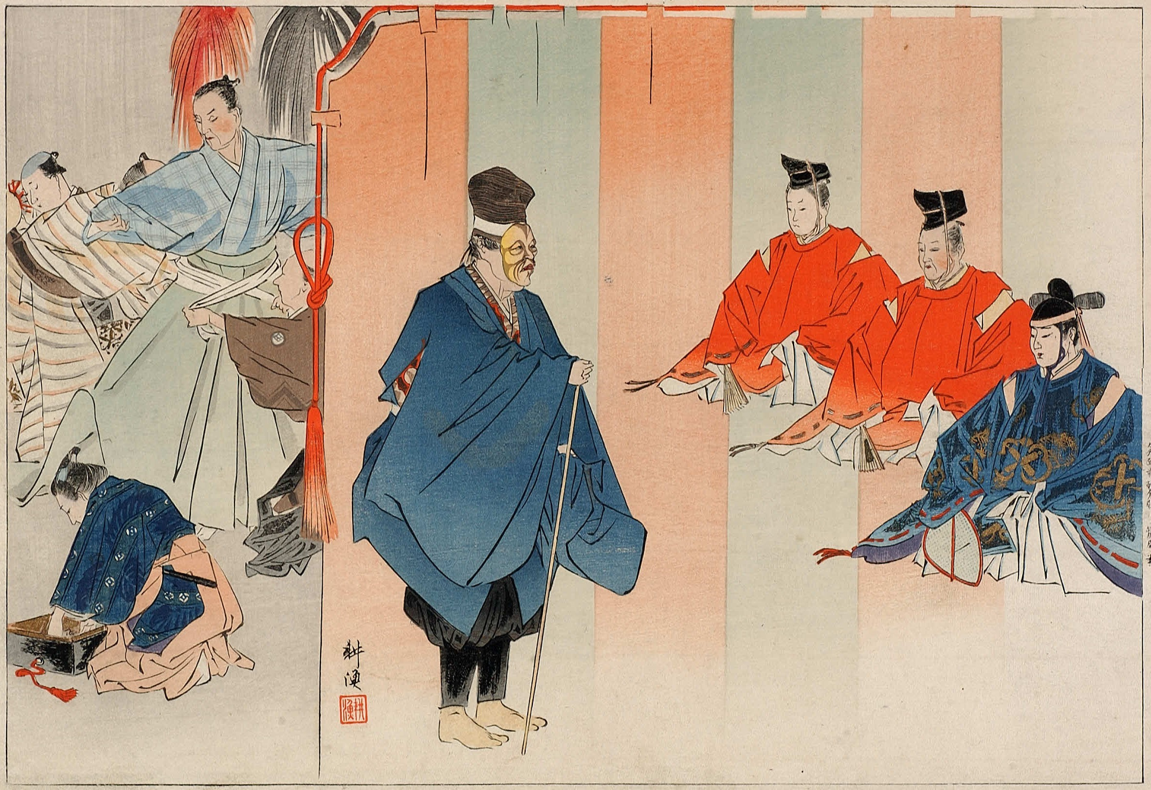 Scene out of Nô-play "Hakurakuten"